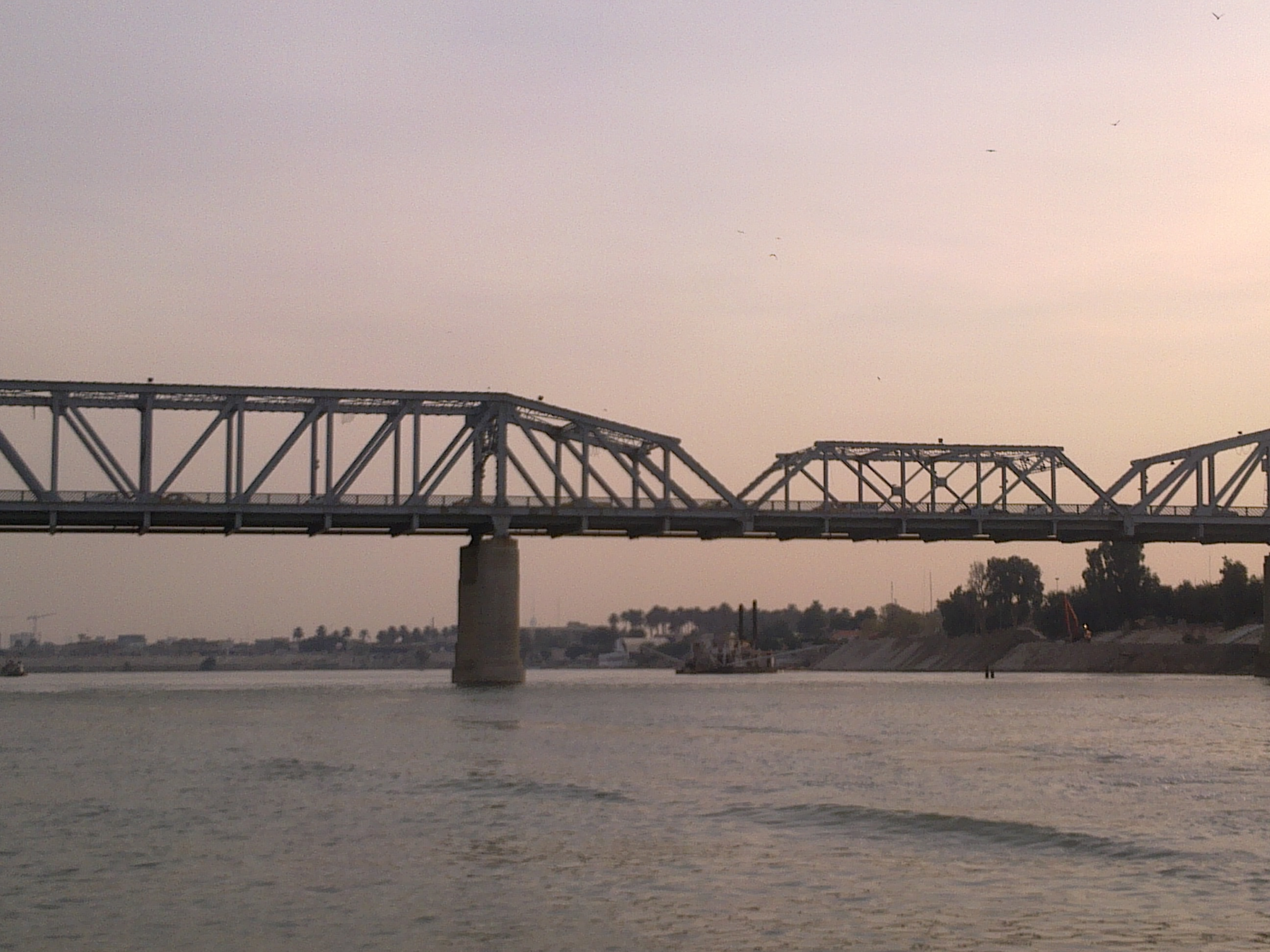 Al-Sarafiya bridge in 2012